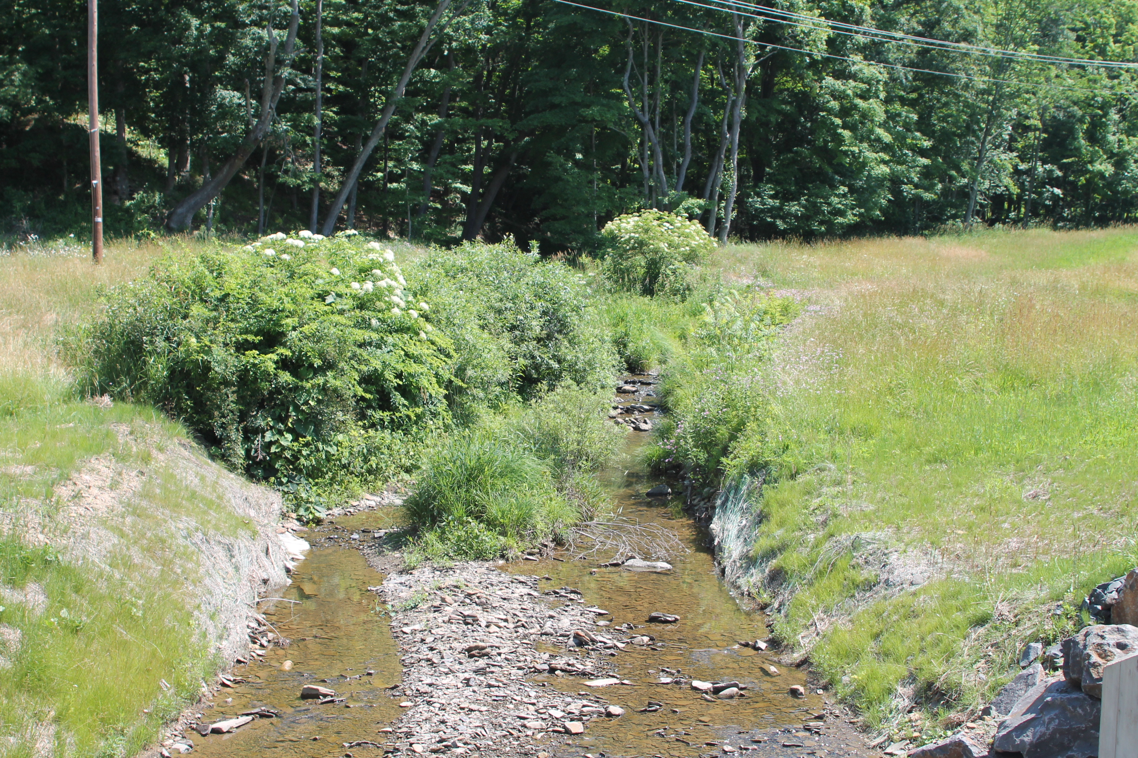 Rickards Hollow, a tributary of Green Creek (Fishing Creek)